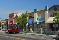 El Cerrito Plaza as seen from Fairmount Avenue